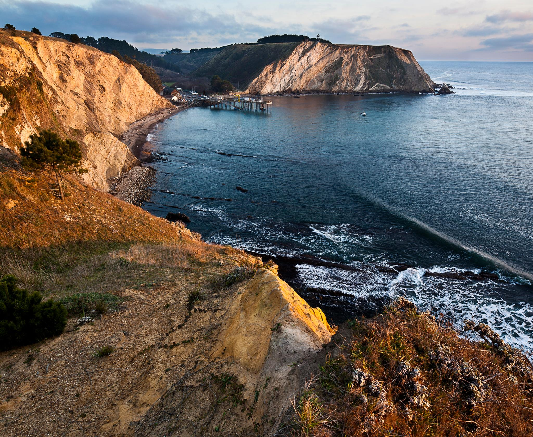 View of Point Arena from the Stornetta Public Lands. Photo by Bob Wick, BLM — with Bob Wick, BLM in Point Arena, California.